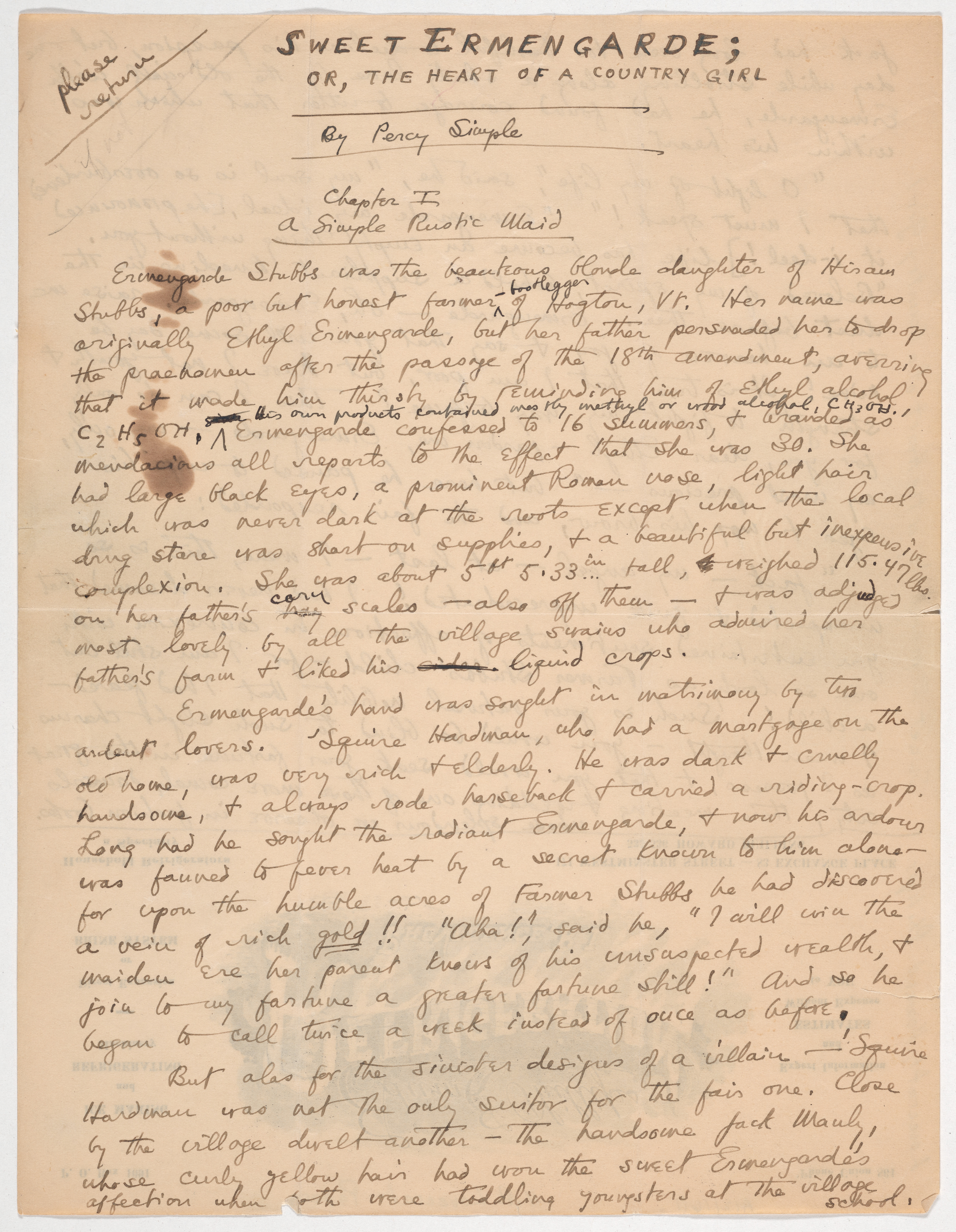 First page of the manuscript Sweet Ermengarde.